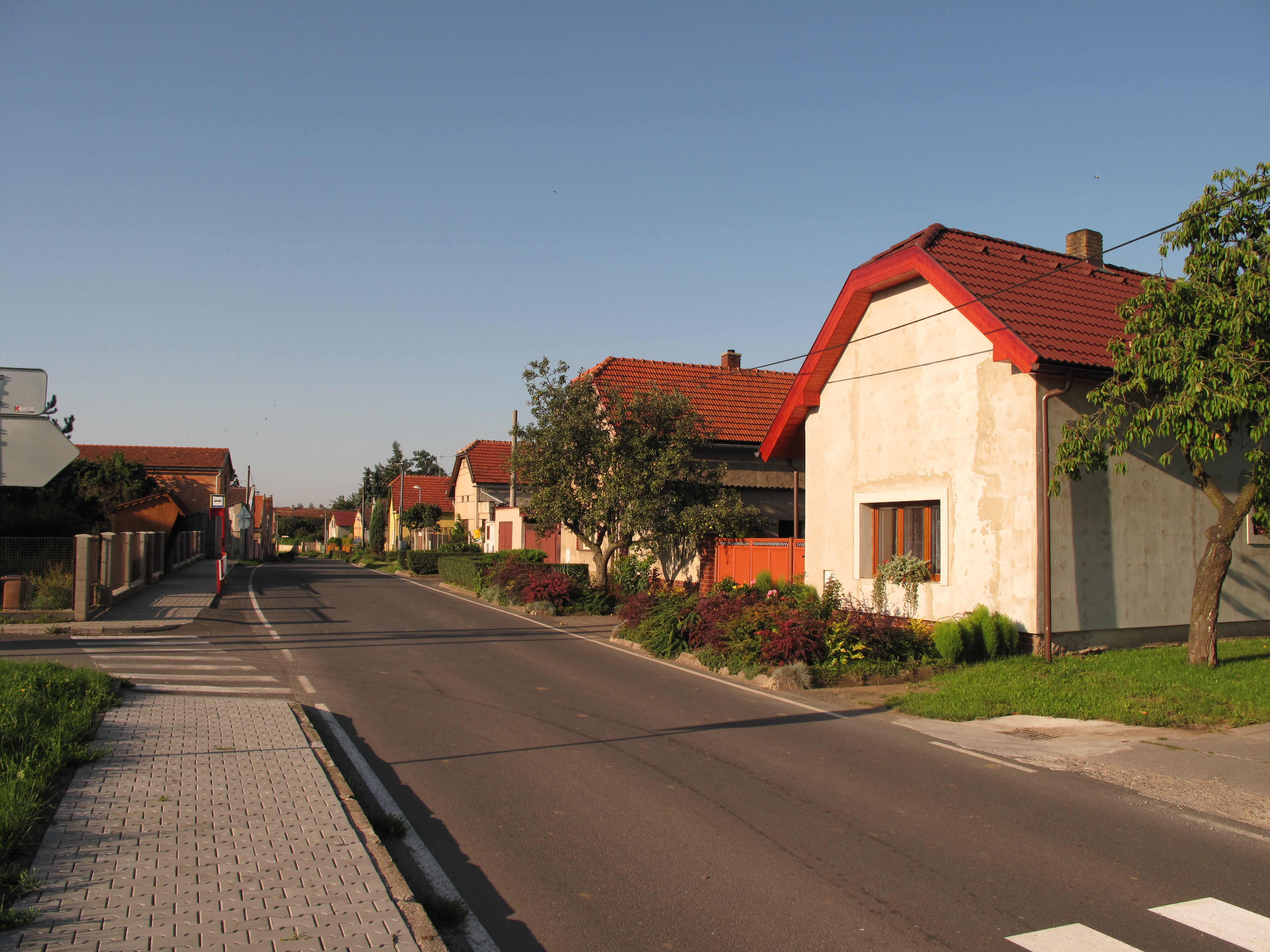 Houses alongside main road in Bylany village (Chrášťany municipality), Kolín District, Czech Republic.